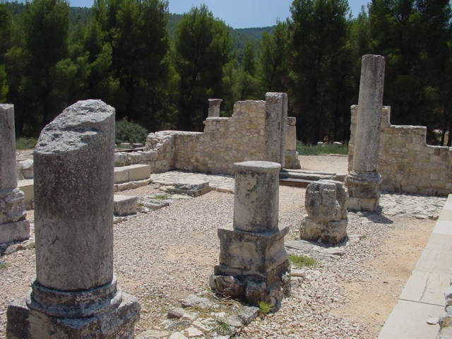 Remains of the Nabratein synagogue, northern Israel.